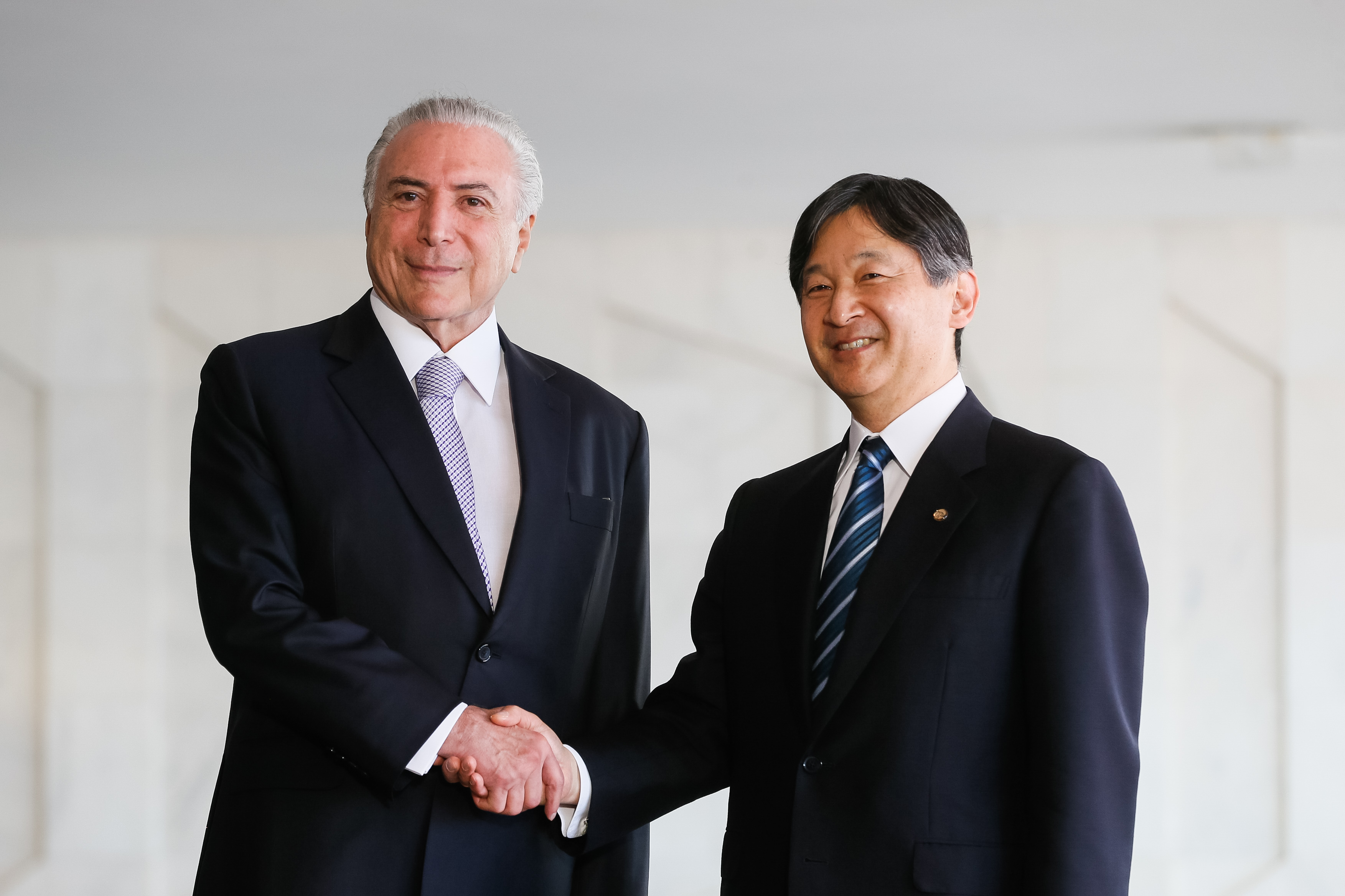 The President of Brazil, Michel Temer, and Naruhito, Crown Prince of Japan, shaking hands at the World Water Forum.